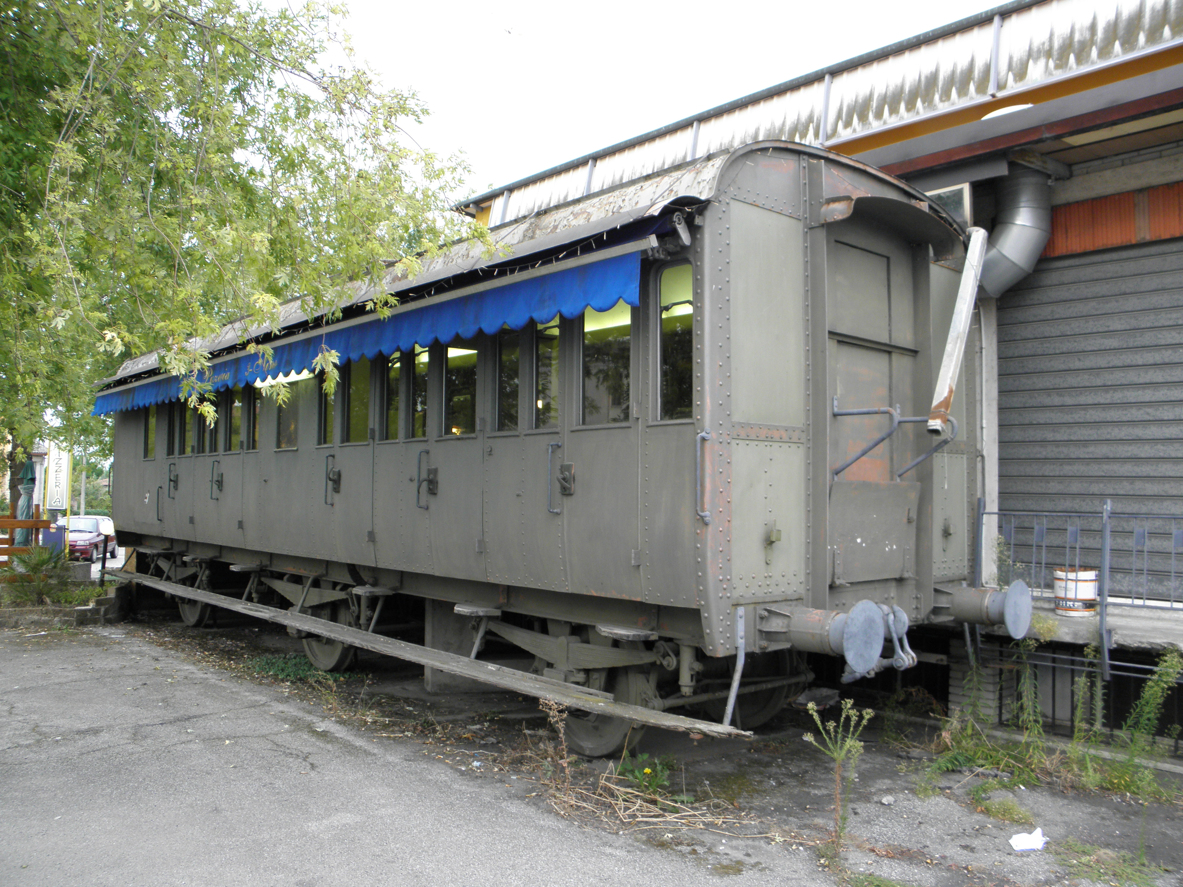 Old railway coach, now pizzeria-restaurant, in Costa di Rovigo, province of Rovigo.